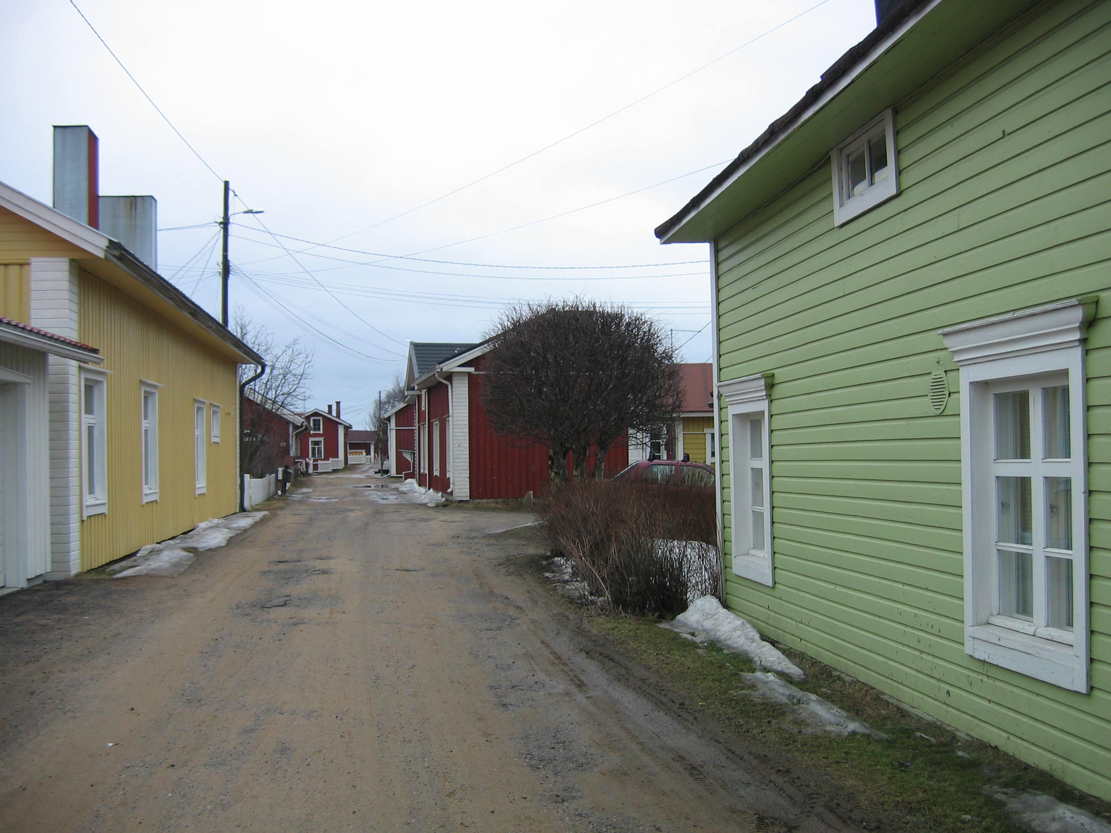 The old "Hamina" of the municipality of Ii, Finland